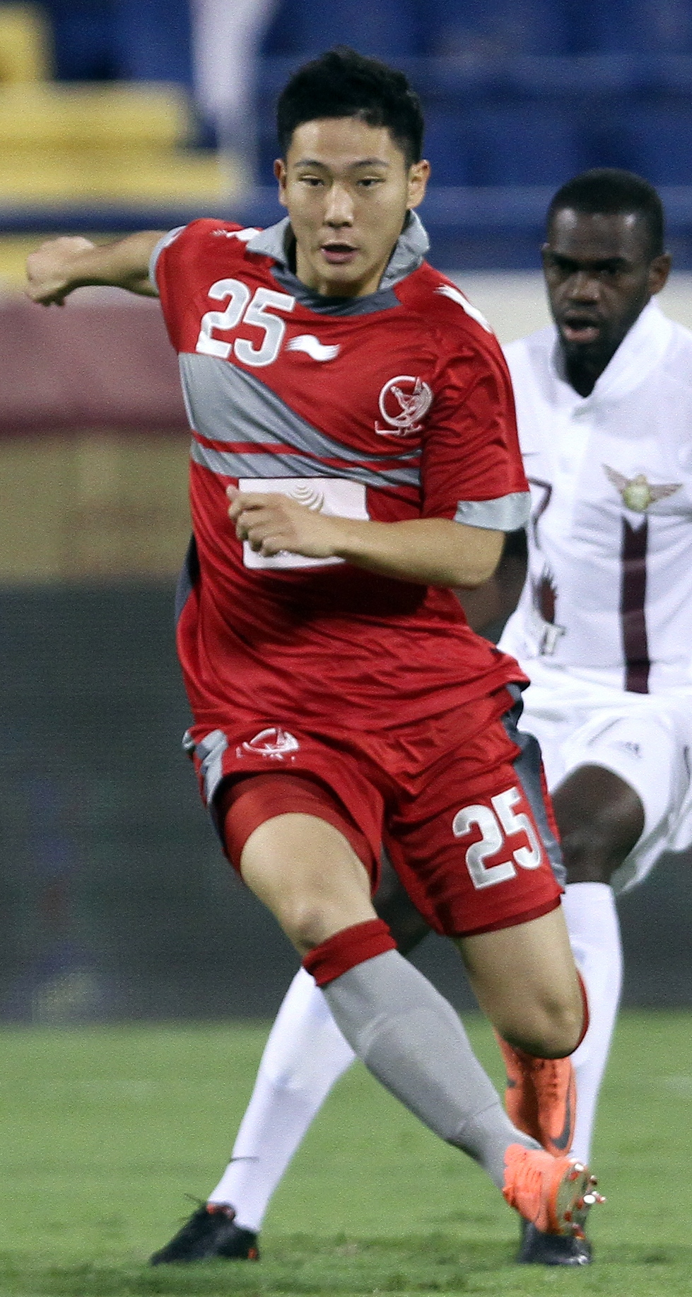 Lekhwiya's South Korean player Nam Tae-Hee in action during a Qatar Stars League match.